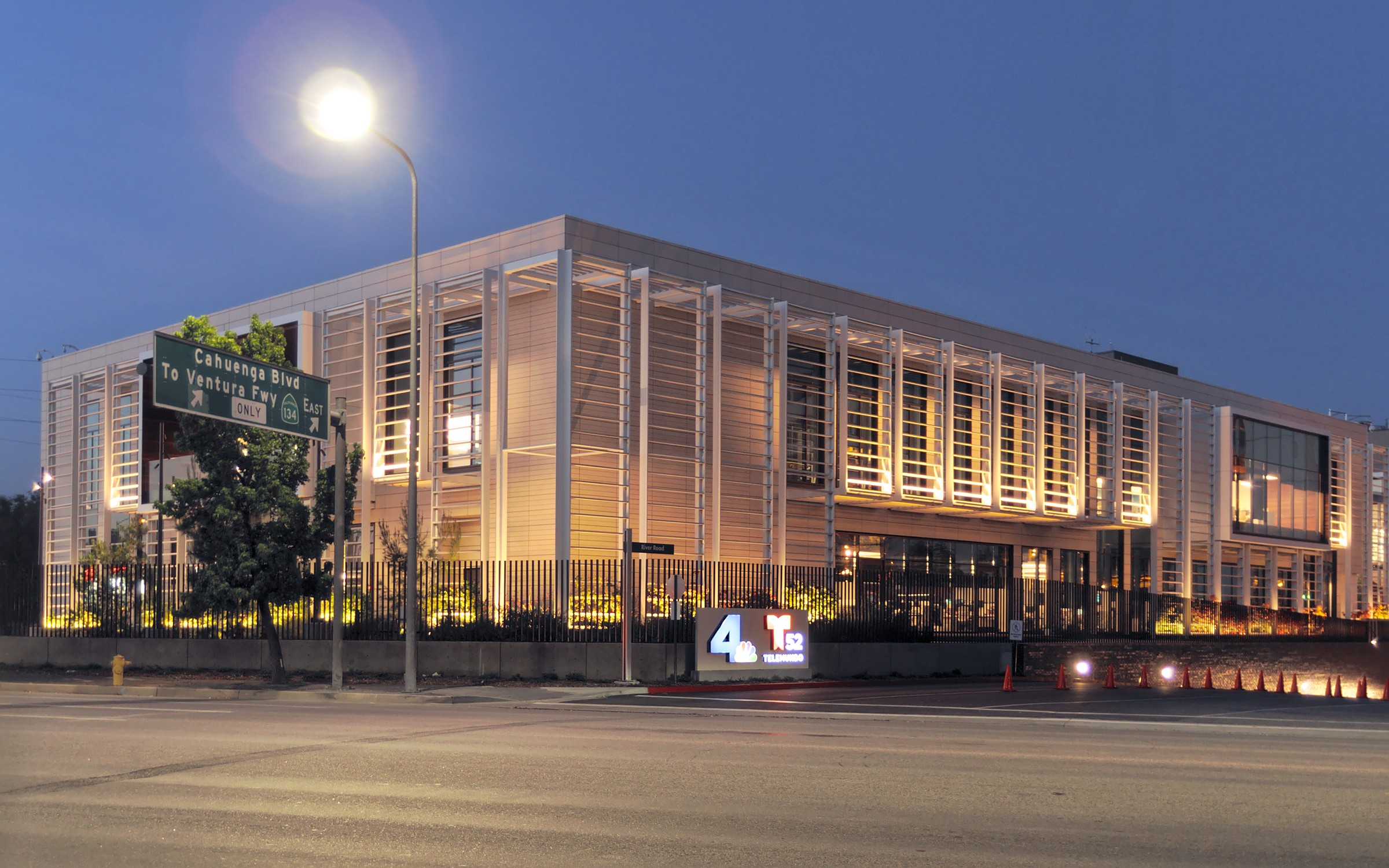 Entrance from Lankershim Blvd to Gate 3 at Universal Studios, with signage for NBC and Telemundo, and the newly built structure on the former site of Technicolor Plant 20.